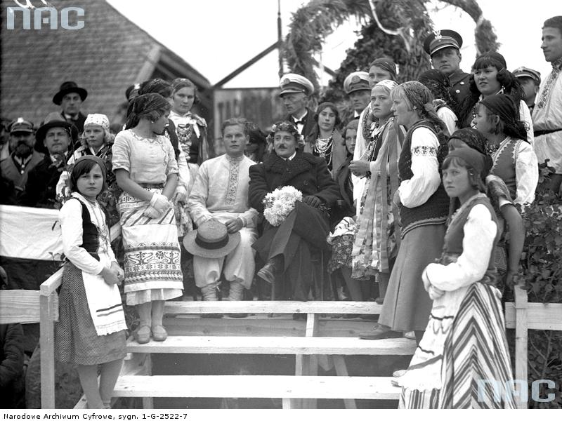 Dożynki in Głębokie. Poland (Wilno Voivodeship). 1934